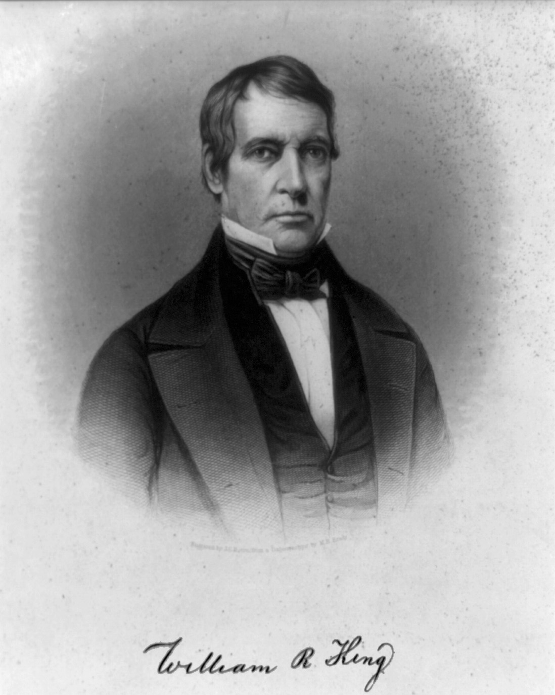 U.S. Senator William R. King